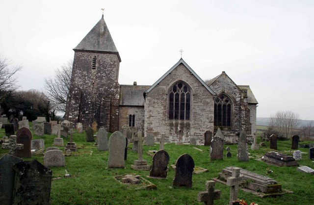 St Cuby's church Duloe The tower leans towards the church building, I was not drunk when I took this picture.